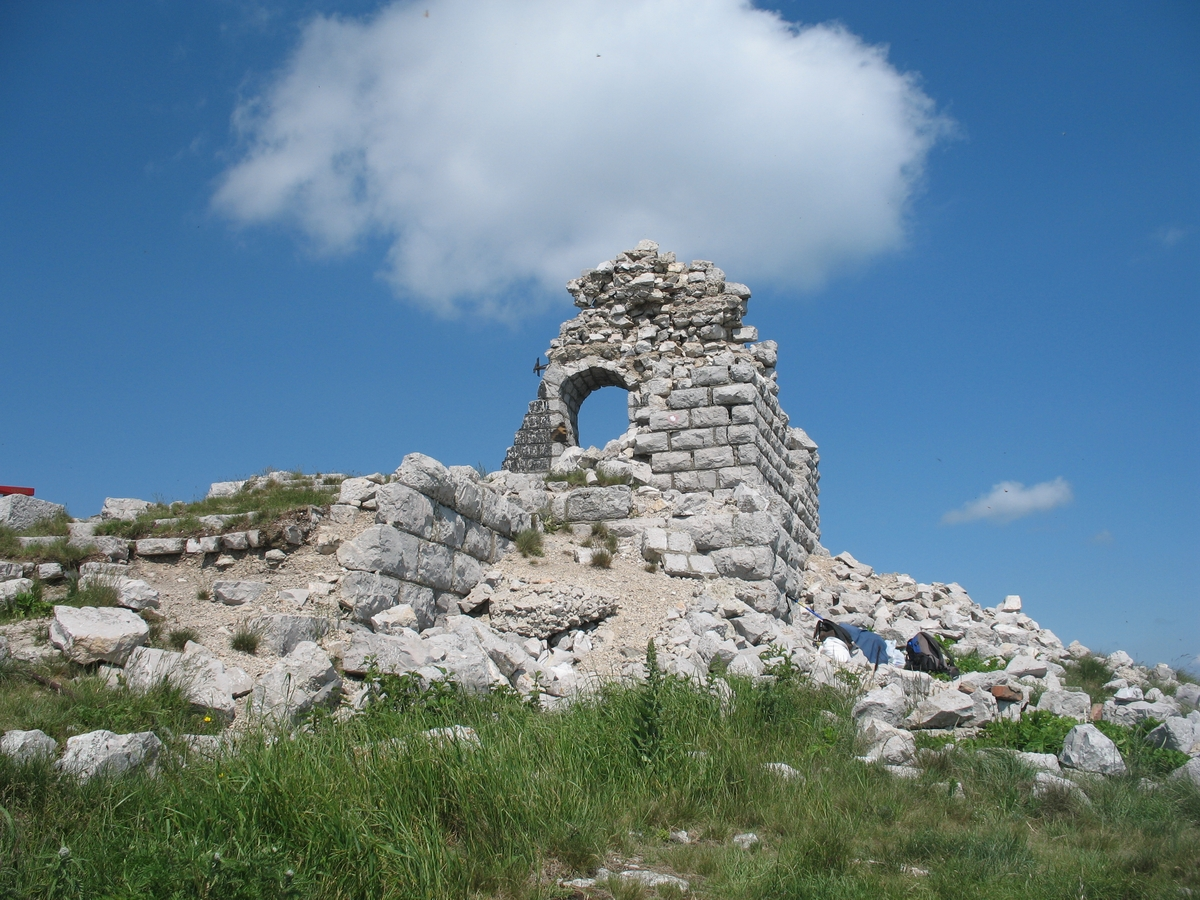 Remains of small chapel on top of Rtanj mountain near Zaječar, Serbia.